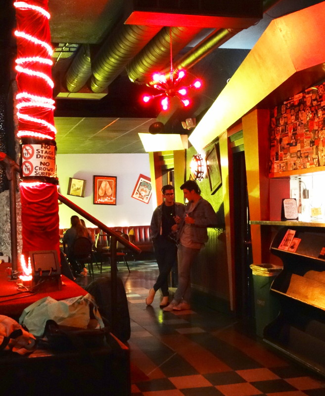 View from side of stage into the back room at the Bottom of the Hill music venue in San Francisco, CA, August 2018. Photo by LHCollins.